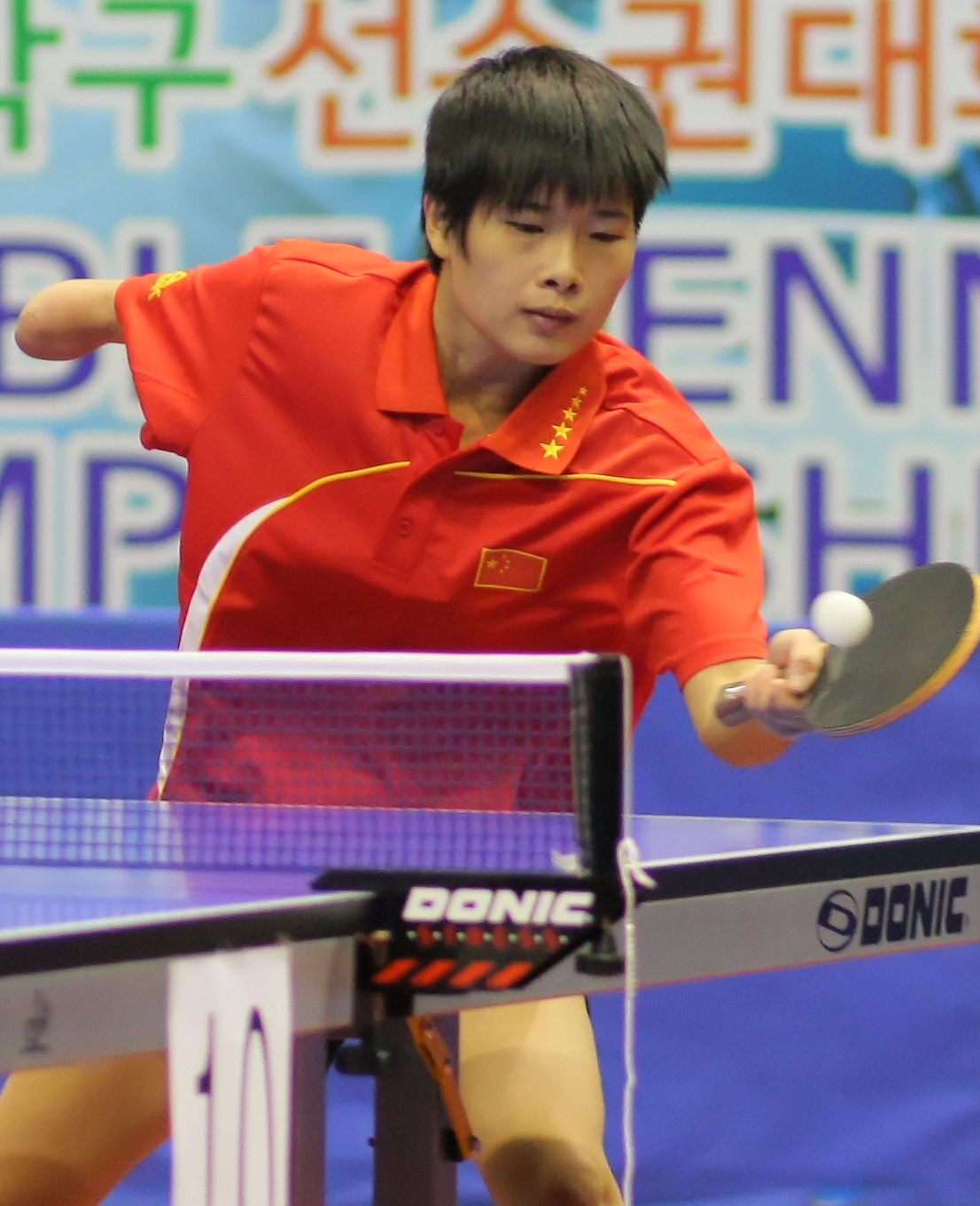 Hou Chunxiao